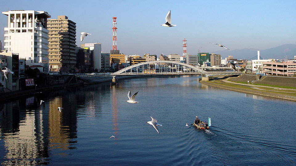 Photograph of Kano rever and Onari bridge in Numazu city, Shizuoka prefecture, Japan.Seen from Eitai Bridge, 300m(nearly 330yd.) downstream from the Onari bridge.